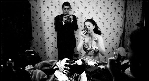 Stanley Kubrick was a Look magazine photographer when he caught himself in the mirror of Rosemary Williams, a showgirl, in 1949.